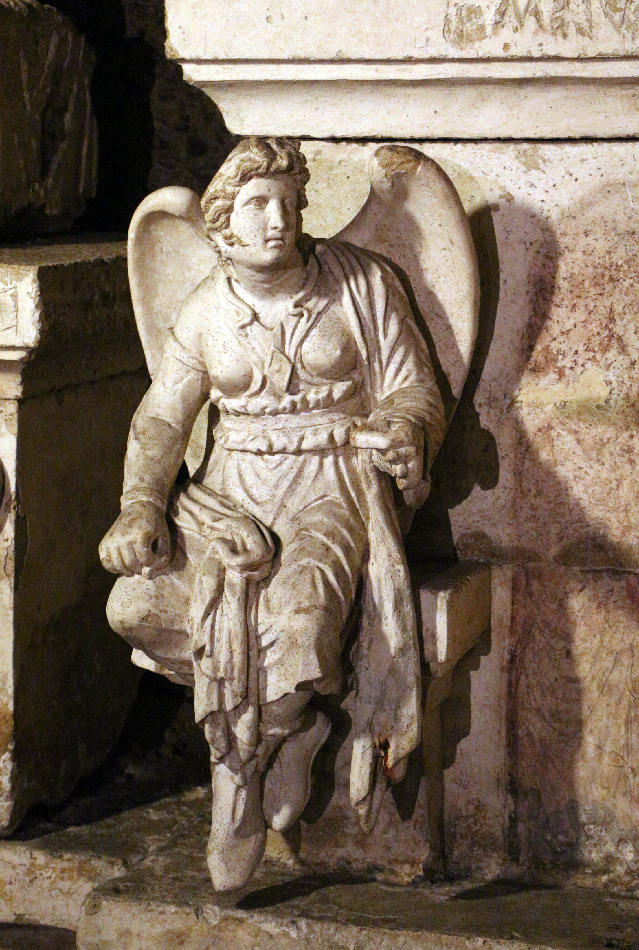 Etruscan funerary urns in the Ipogeo dei Volumni